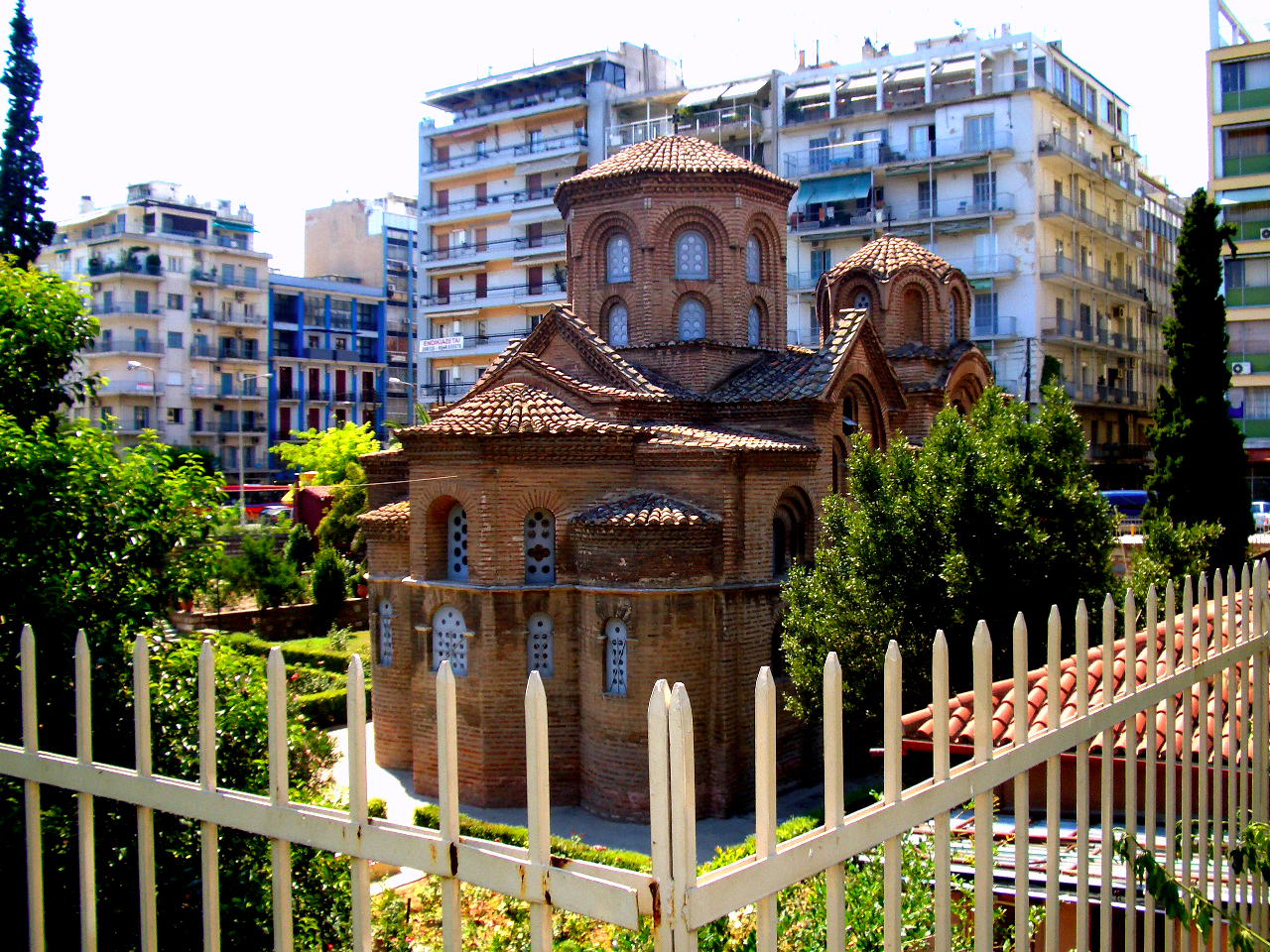 The Byzantine Church of Panagia Chalkeon in Thessaloniki